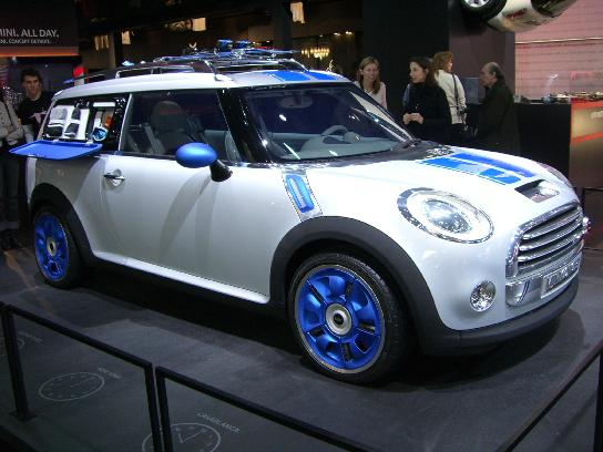 The BMW MINI Traveller concept car. Photo taken at the 2006 Detroit Auto show by Dennis Bautista and kindly released, copyright-free.